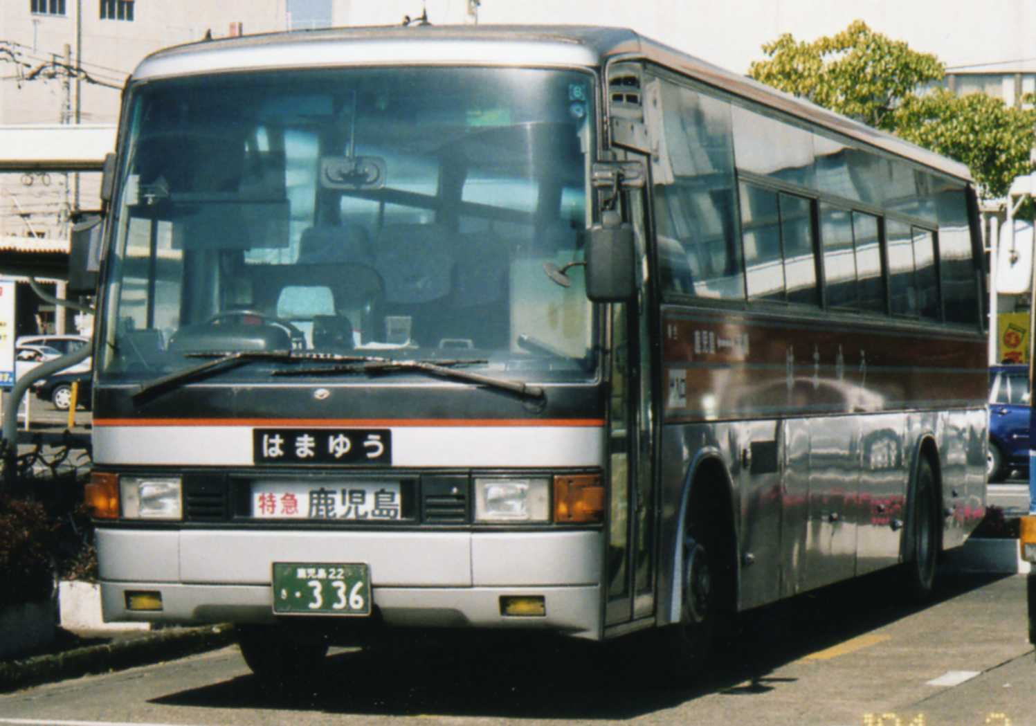 Minami Kyushu Highway Bus Mitsubishi P-MS725N 2004.03.09 at Miyazaki Sta. Photo by Cassiopeia_sweet.